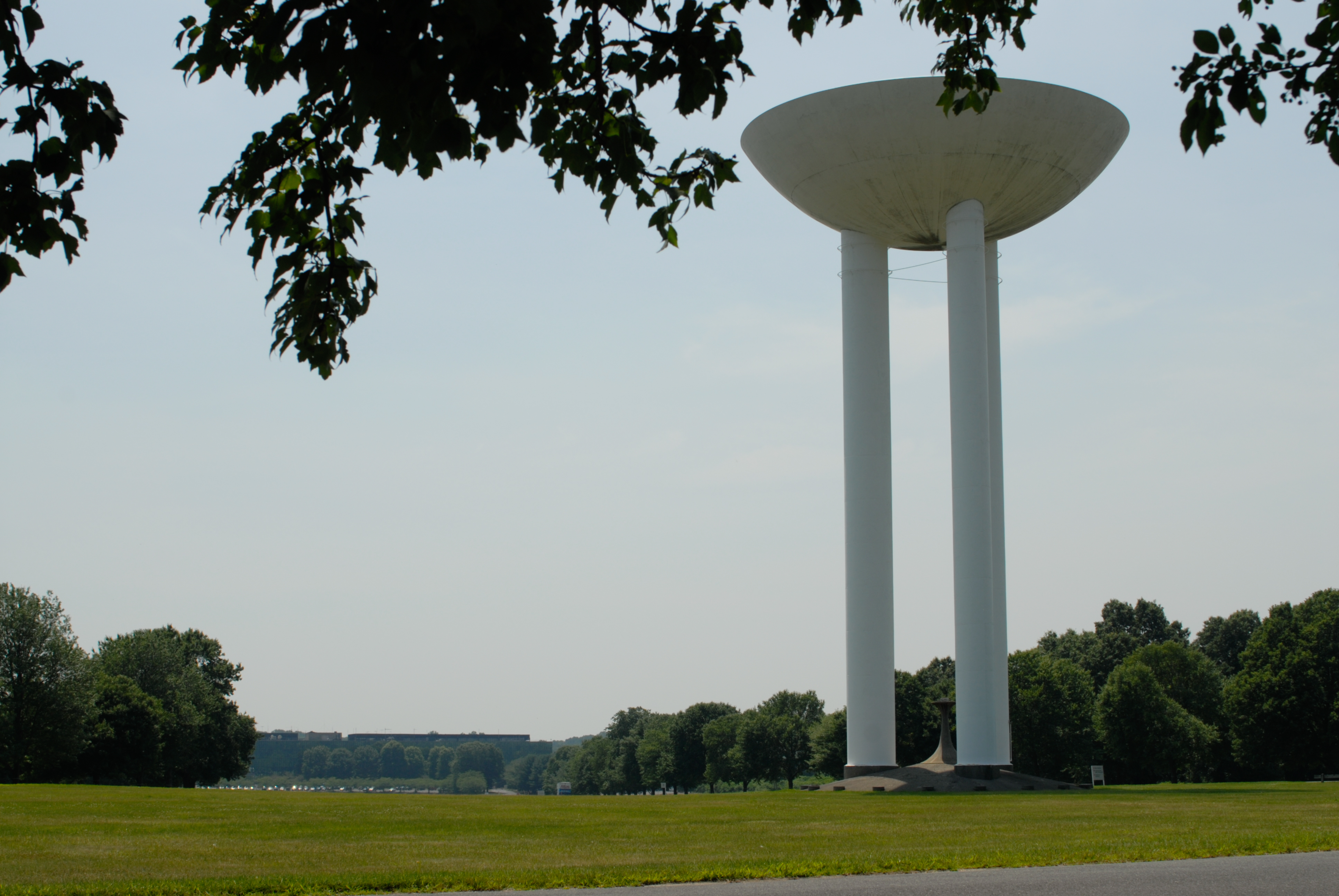 AT&T's Holmdel lab complex, including its trademark water tower.